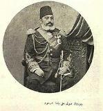 Çürüksulu Ali Pasha. Pasha was a descendant of the Georgian noble family of the Tavdgiridze